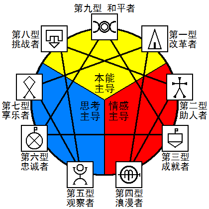 Enneagram symbol (with Chinese Label)